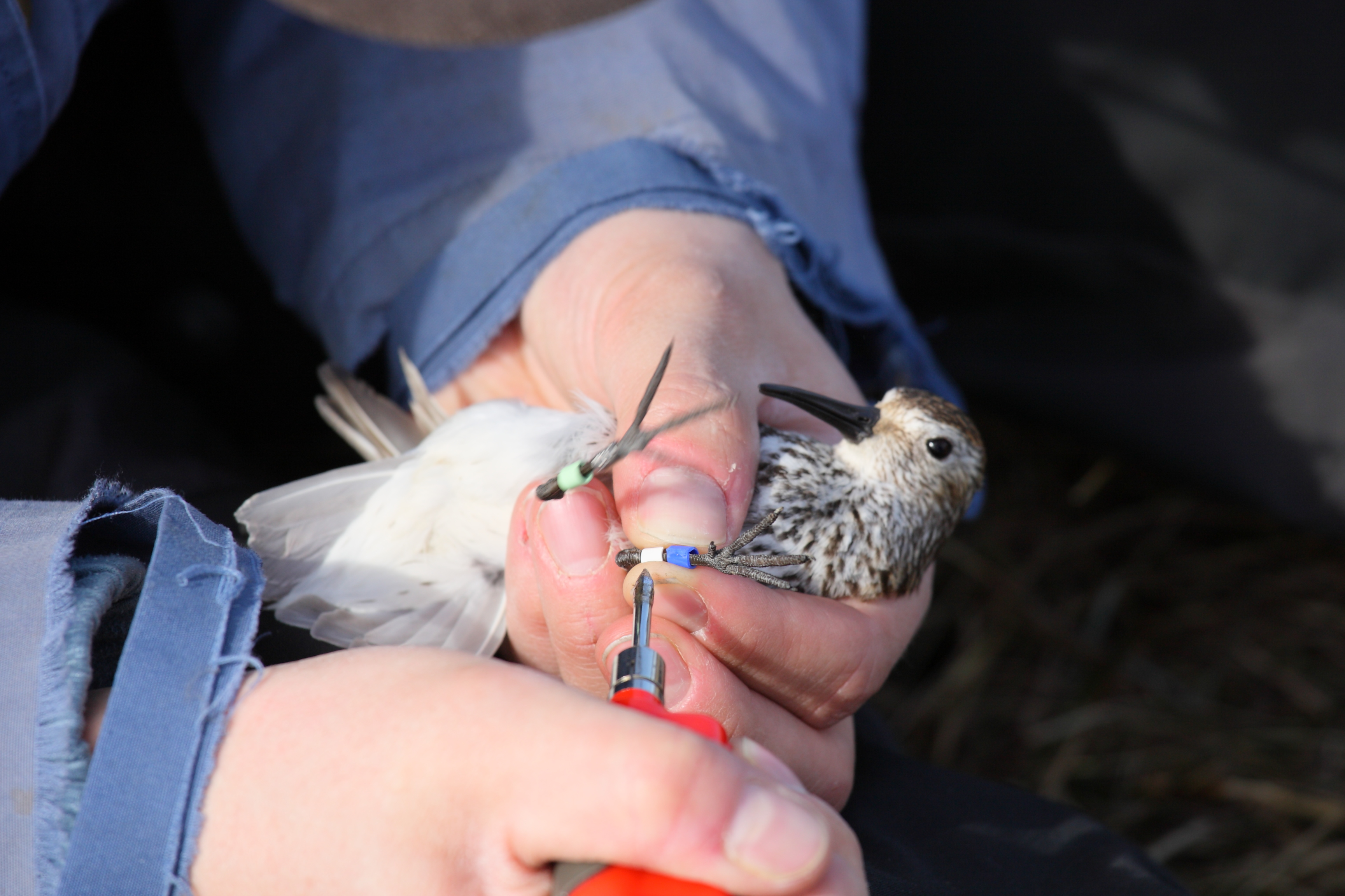 Ringing Baltic Dunlin in MatsaluEesti: Niidurüdi rõngastamine Matsalus